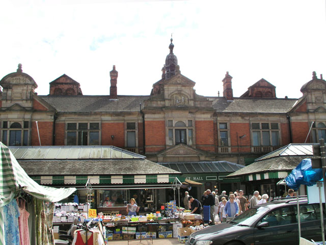 Burton Market The later of the two extant market buildings. This one has a beautifully galleried hall, its trussed roof supported by cast-iron pillars.